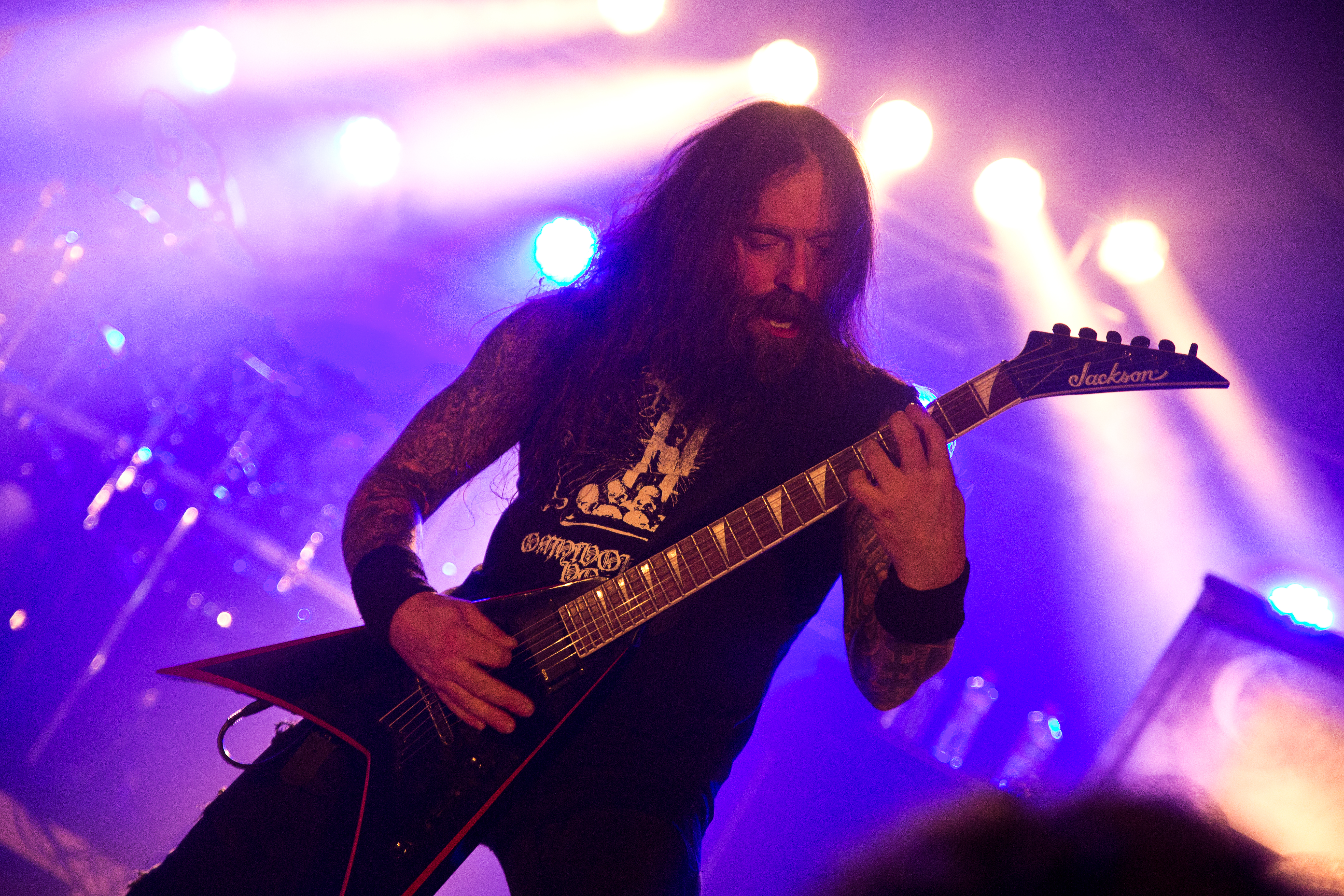 The German death metal band Purgatory at the Party.San Metal Open Air 2016 in Obermehler-Schlotheim/Germany